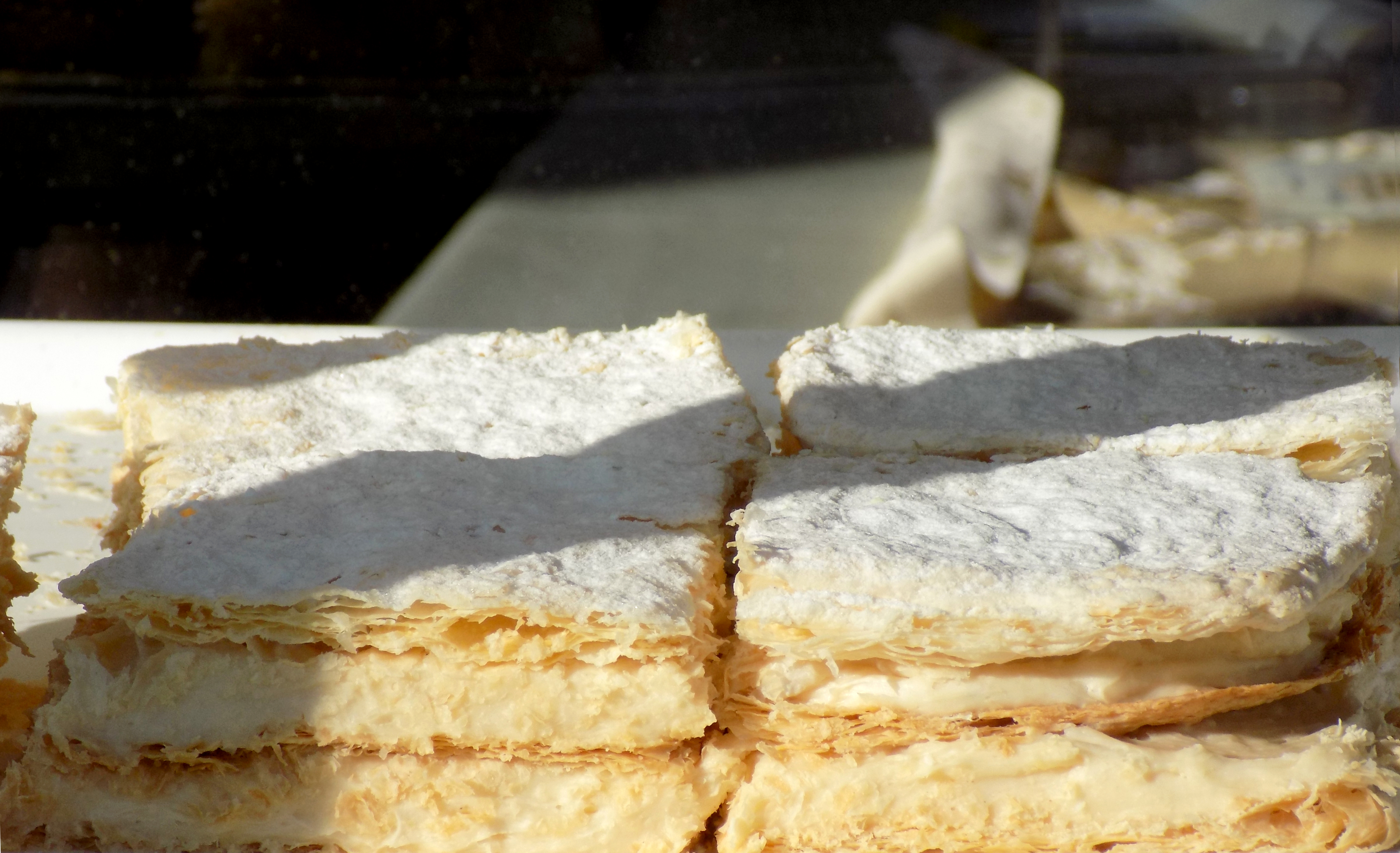 Kotor Cremeschnitte (originally Kotor paste), a famous delicacy of Kotor housewives (Montenegro)